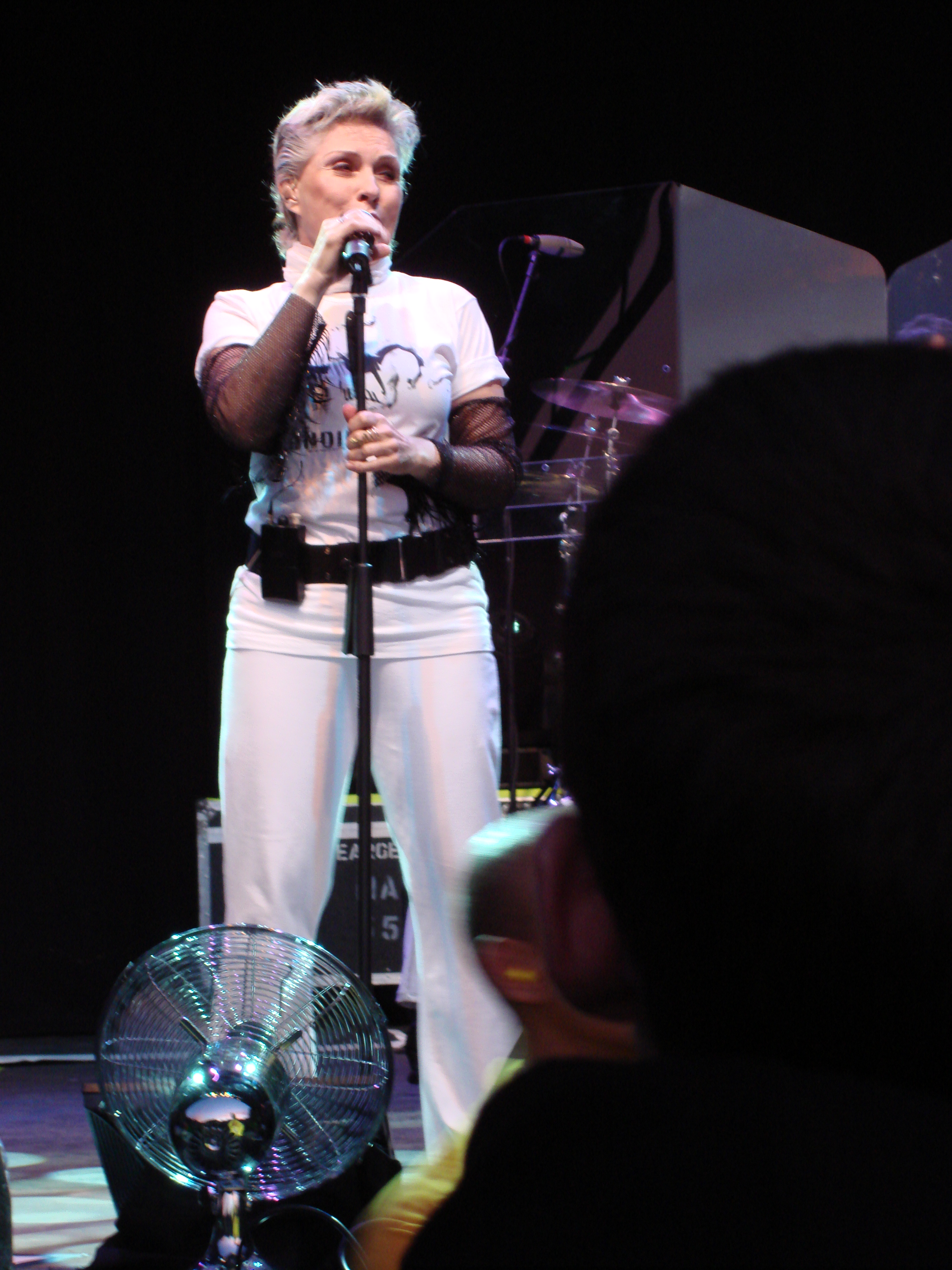 Deborah Harry, from Blondie, Thetford Forrest, UK